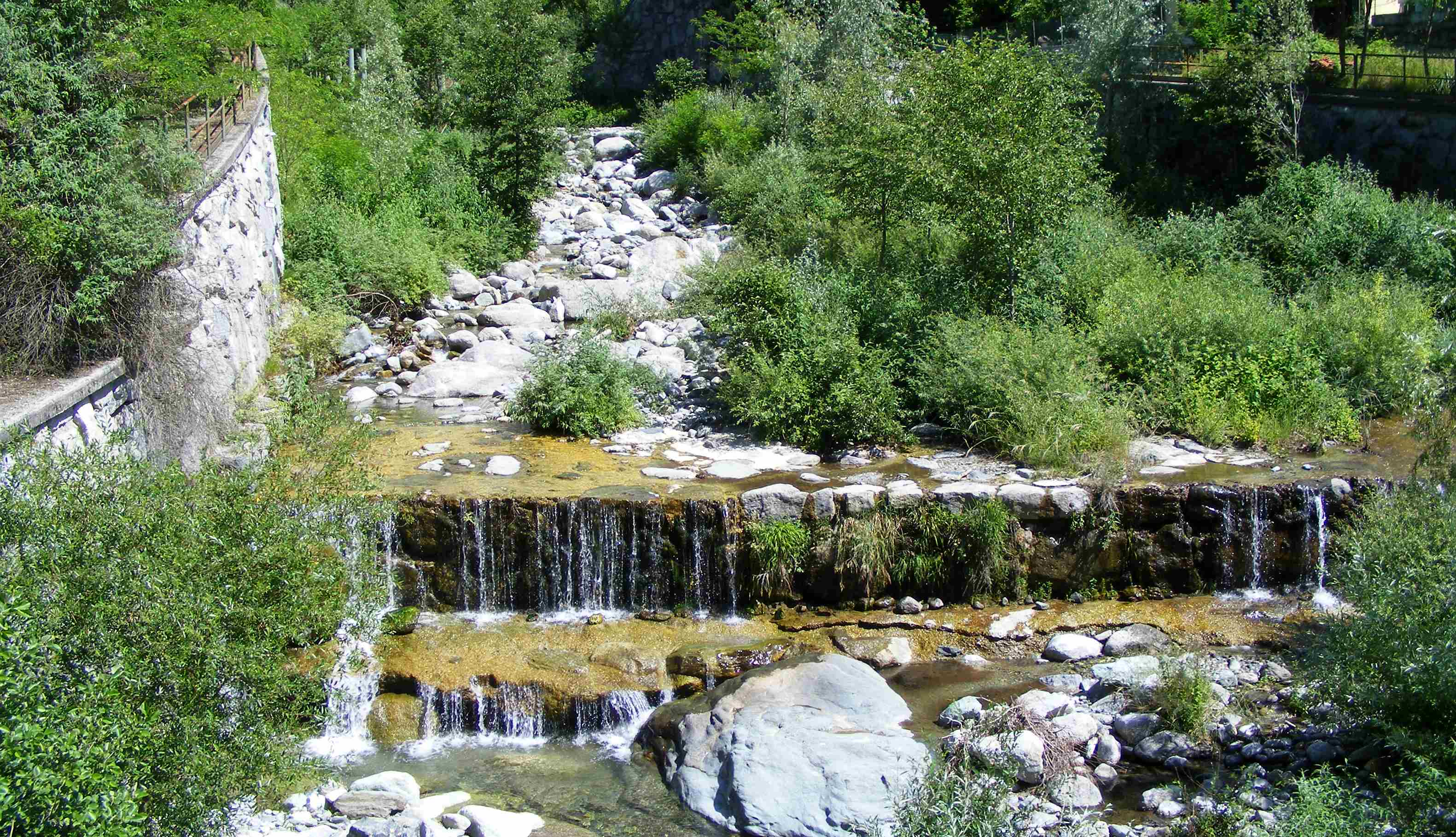 Gravio di Condove (Condove, TO, Italy)